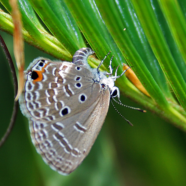 Plains cupid Chilades pandava in Kolkata, West Bengal, India.